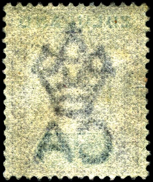 "Crown&CA" watermark on the back of a Zululand stamp, scanned by User:Stan Shebs